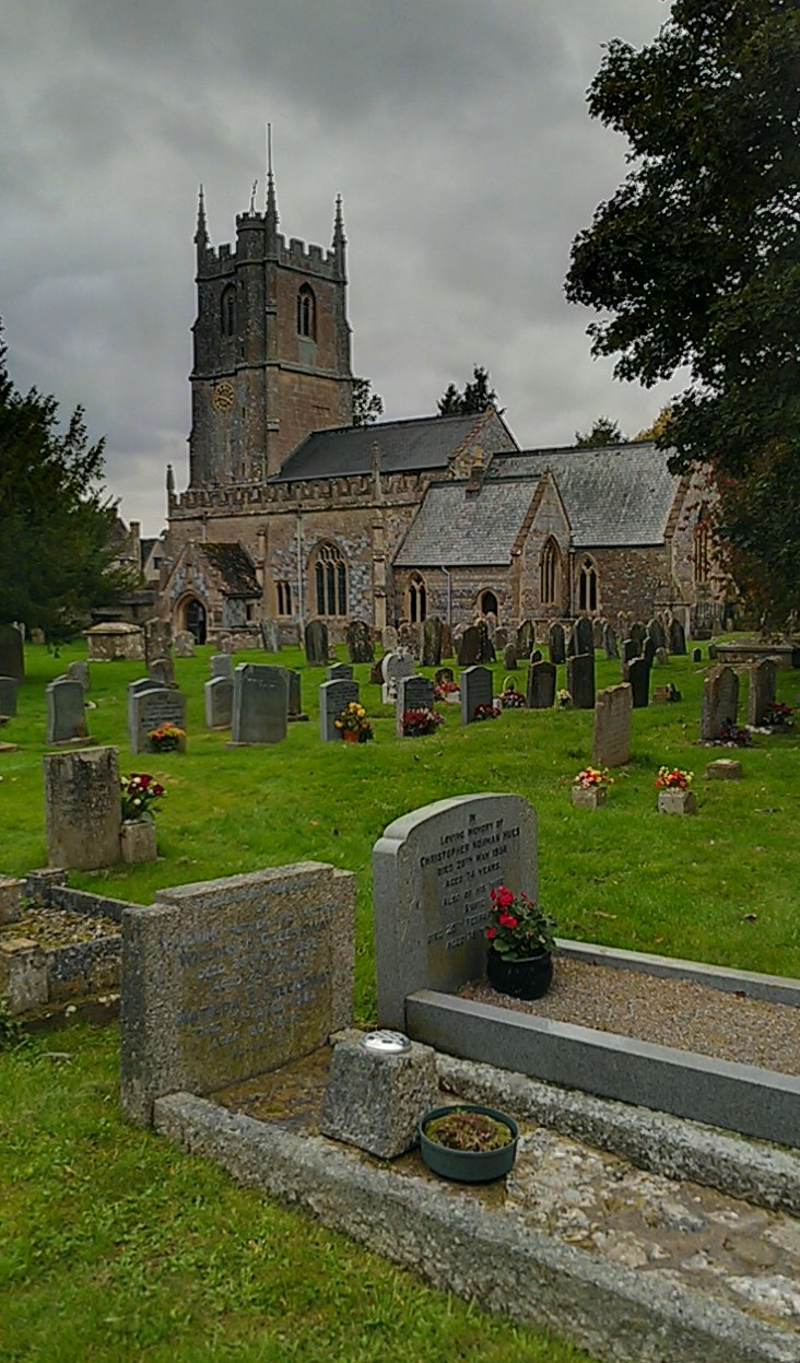 St James' Church, a Church of England parish church located in Avebury, Wiltshire.